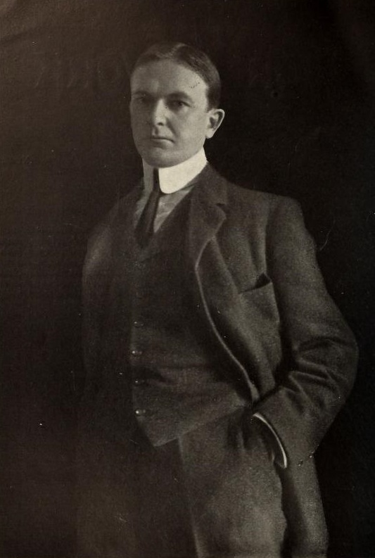 Picture of Robert J. Collier